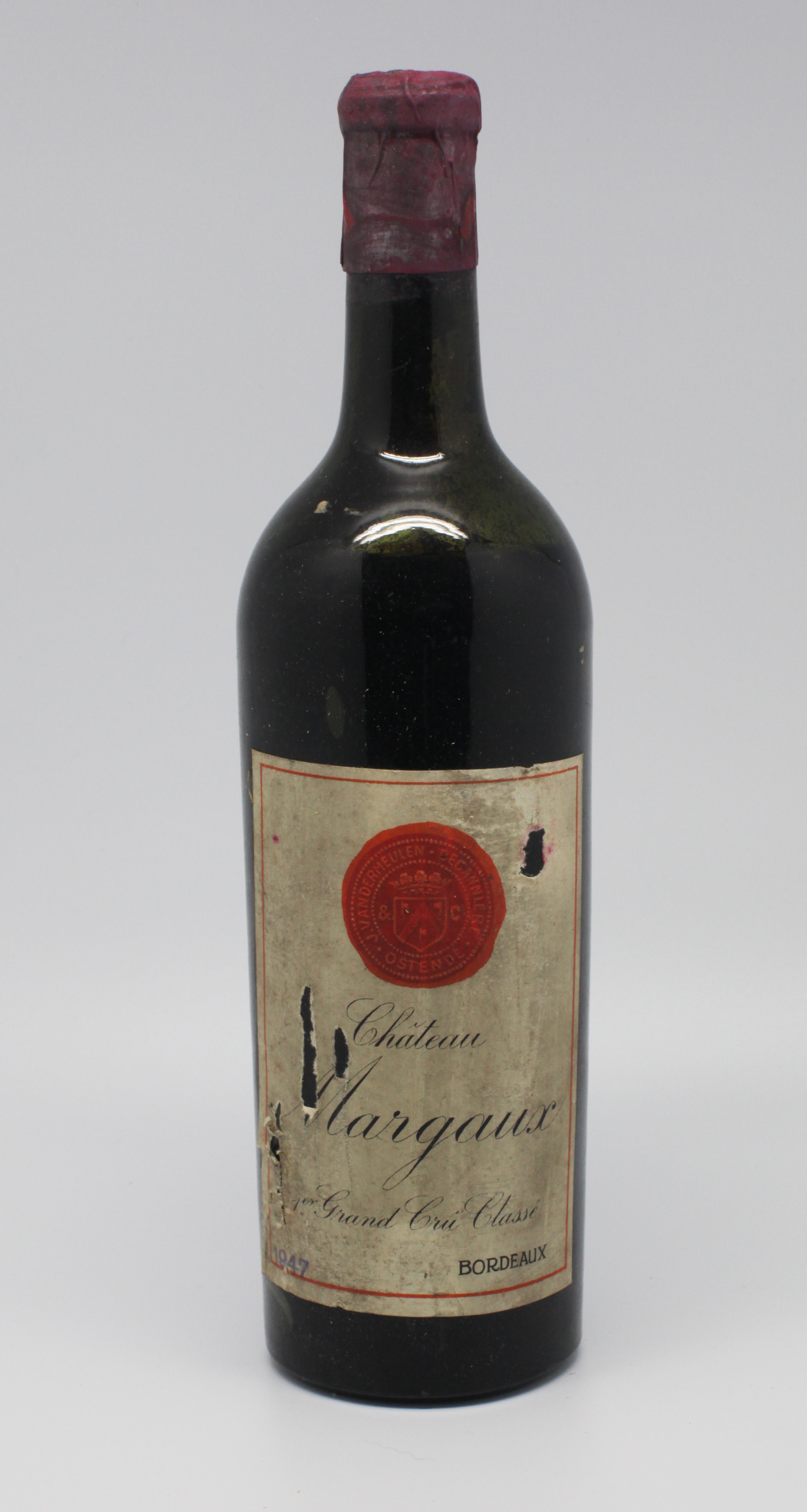 Château-Margaux 1947